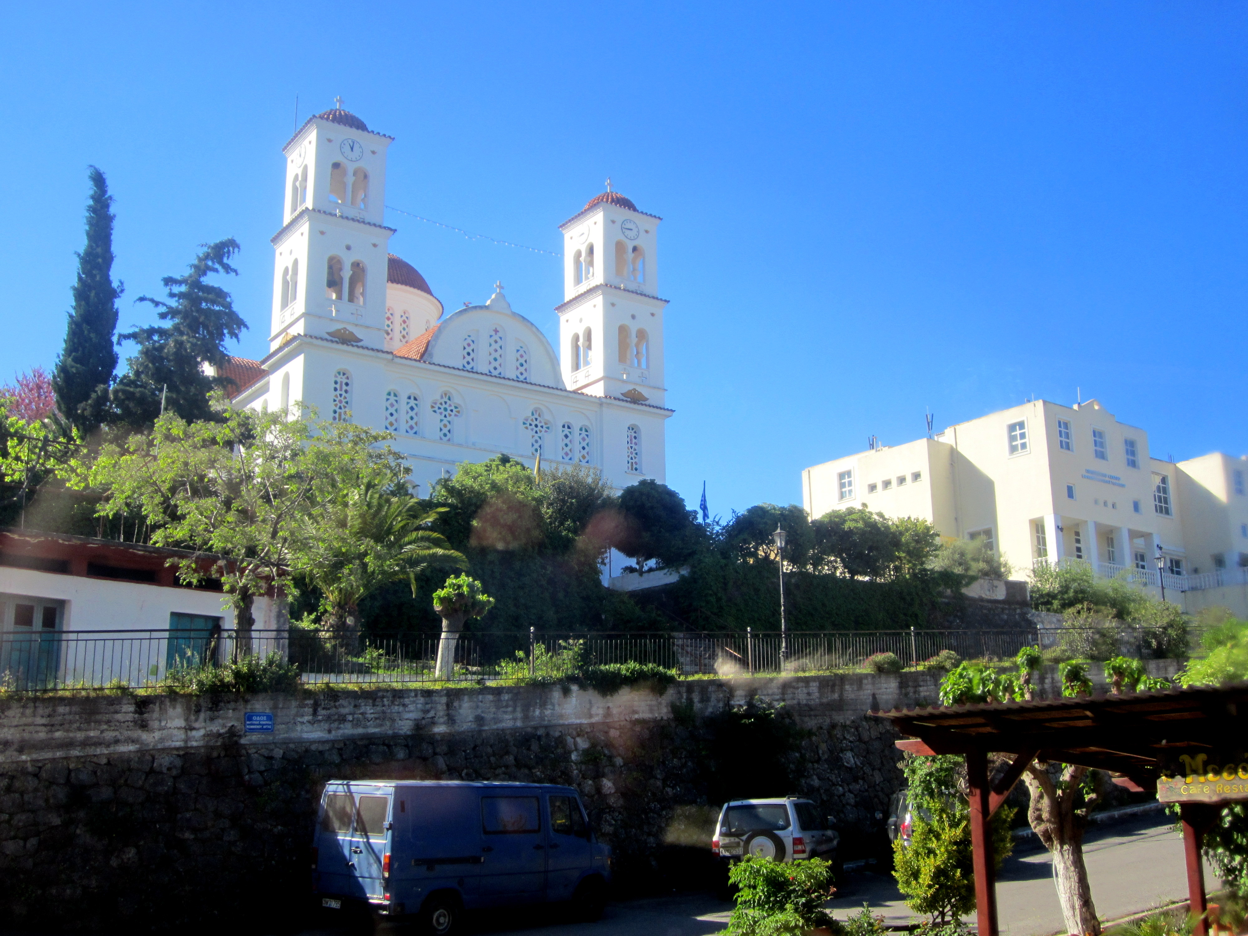 Kantanos (Kandanos), Crete.